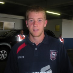 Shane Supple, Ipswich Town player. Author gives permission for this file to also be used by Simply Blue